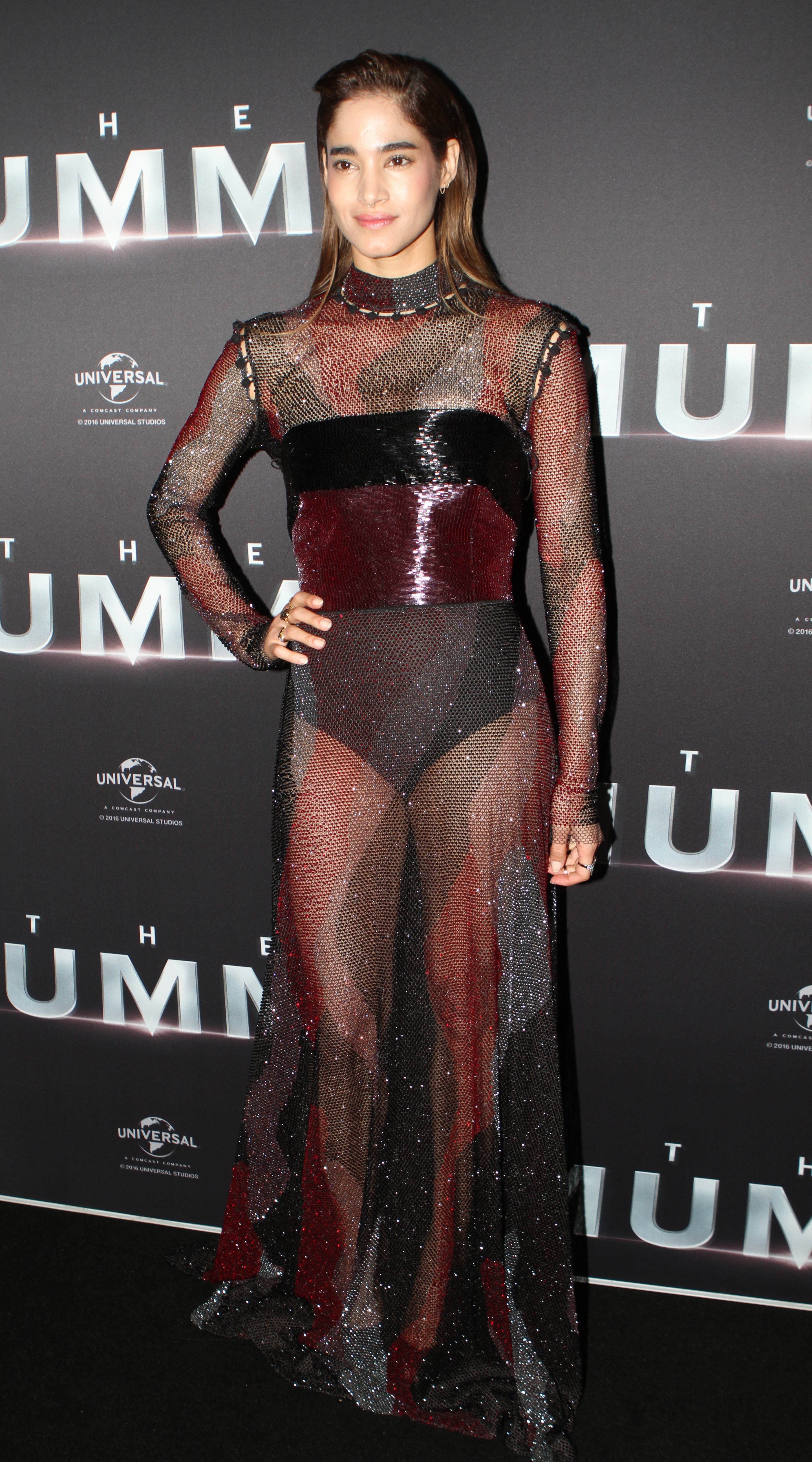 Sofia Boutella at The Mummy Black Carpet Premiere in Sydney, Australia